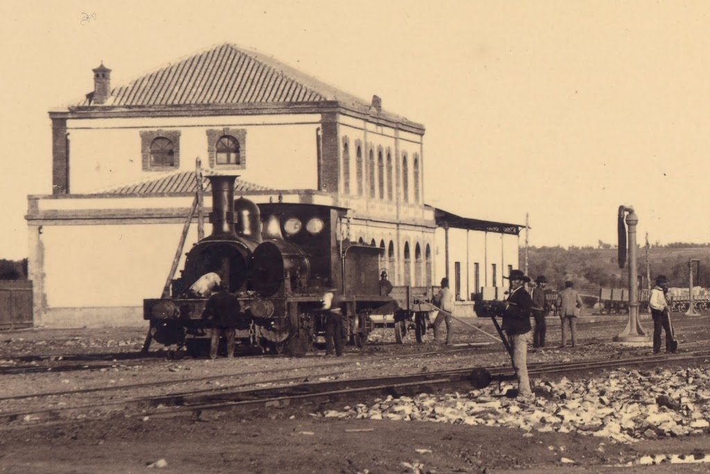 Train station of Fregenal in the begining of the 20th century.